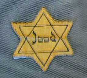 Yellow star of the type Jews were forced to wear during the Nazi occupation of Europe. These particular stars were used in The Netherlands, Dutch language "Jood" ("Jew"). This is from the image Image:Yellowstars.jpg, which was too dark. Image has been adjusted for luminance, color-balanced, trimmed, and sharpened.